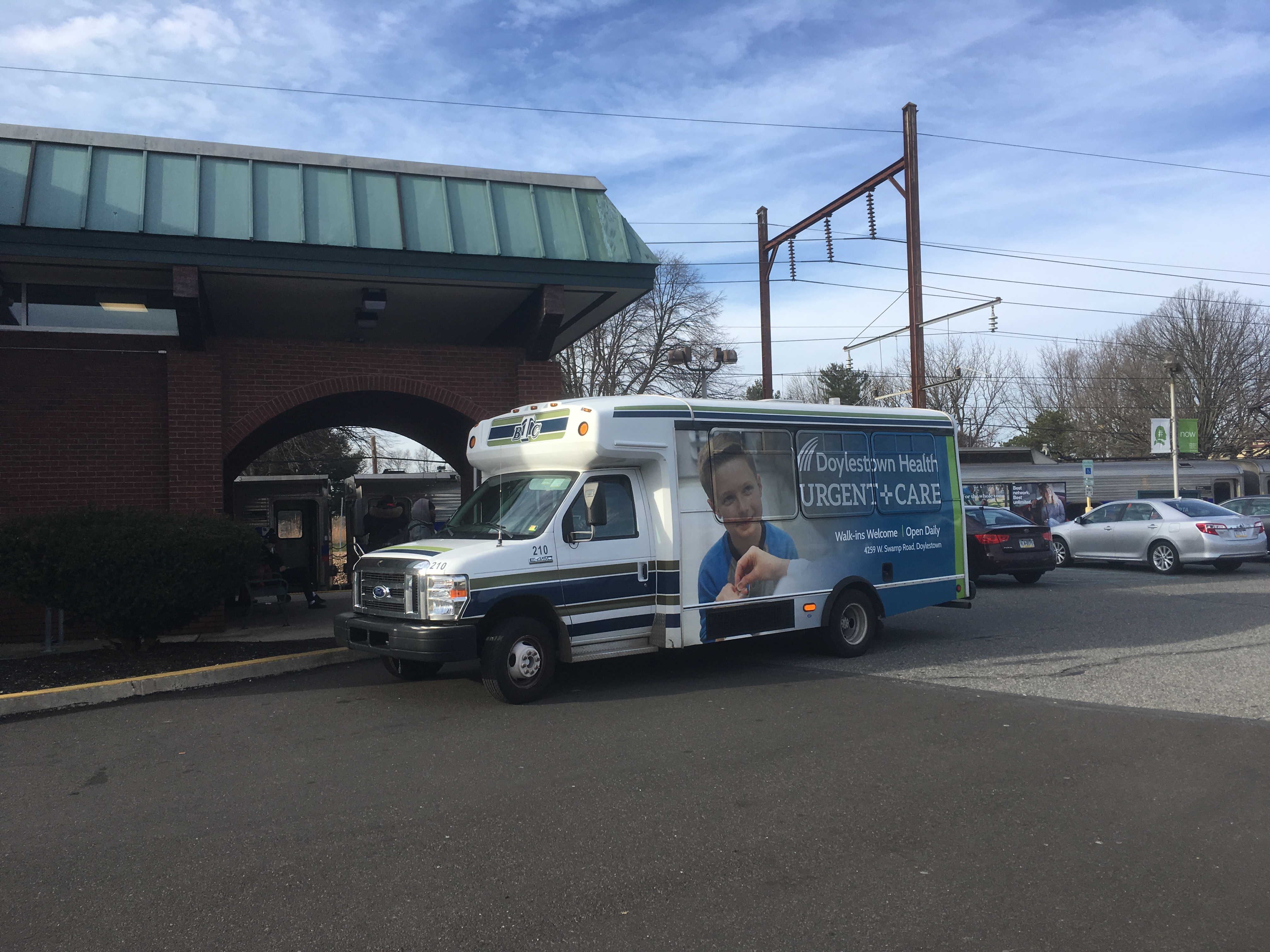 Bucks County Transport Ford E-450 bus #210 operating the Richboro-Warminster Rushbus at Warminster Station in Warminster, Pennsylvania